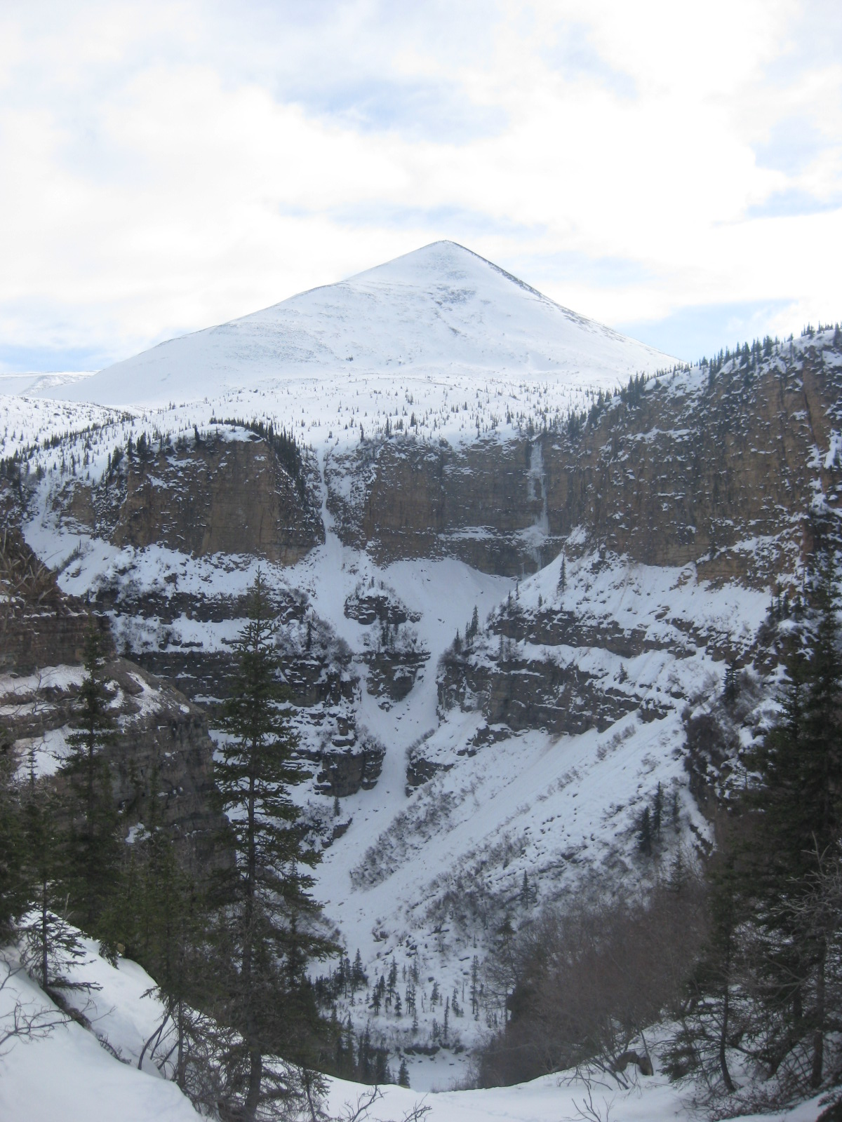 View into a canyon in northern front ranges of MacKenzie Mountains, NWT, Canada